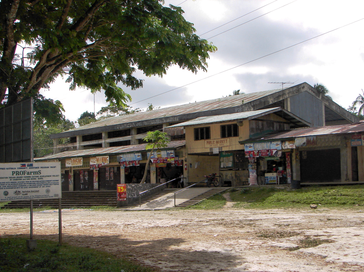 Public market of San Isidro, Bohol, the Philippines